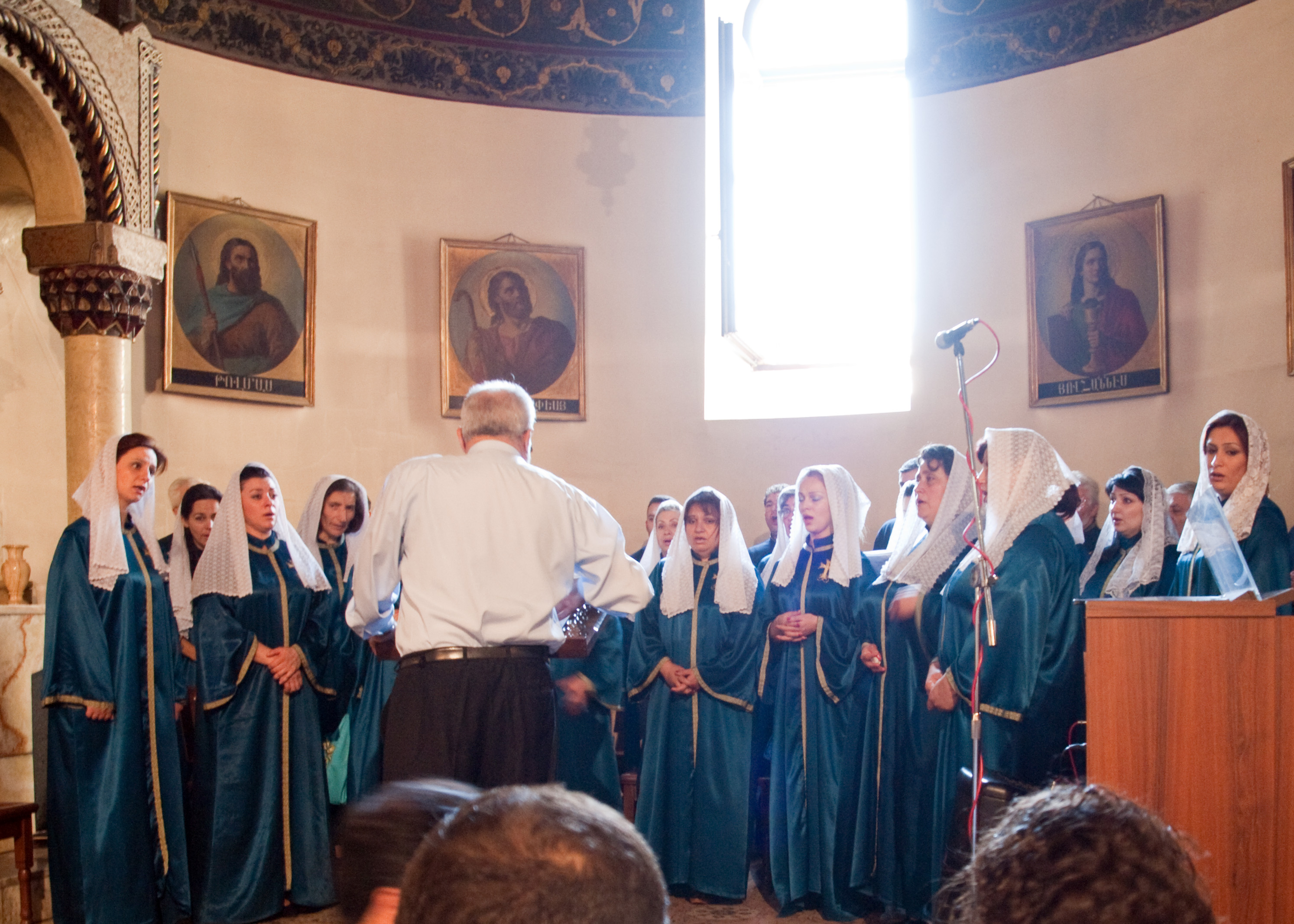 Armenia - Day 2 - 19 September 2010. The religious centre of the Armenian Apostolic Church and a UNESCO World Heritage Site. Armenia was the first known country to adopt Christianity as it's state religion (301 AD). The thing that was very noticeable to me as a secular outsider was the sense of community, companionship and warmth in church services.